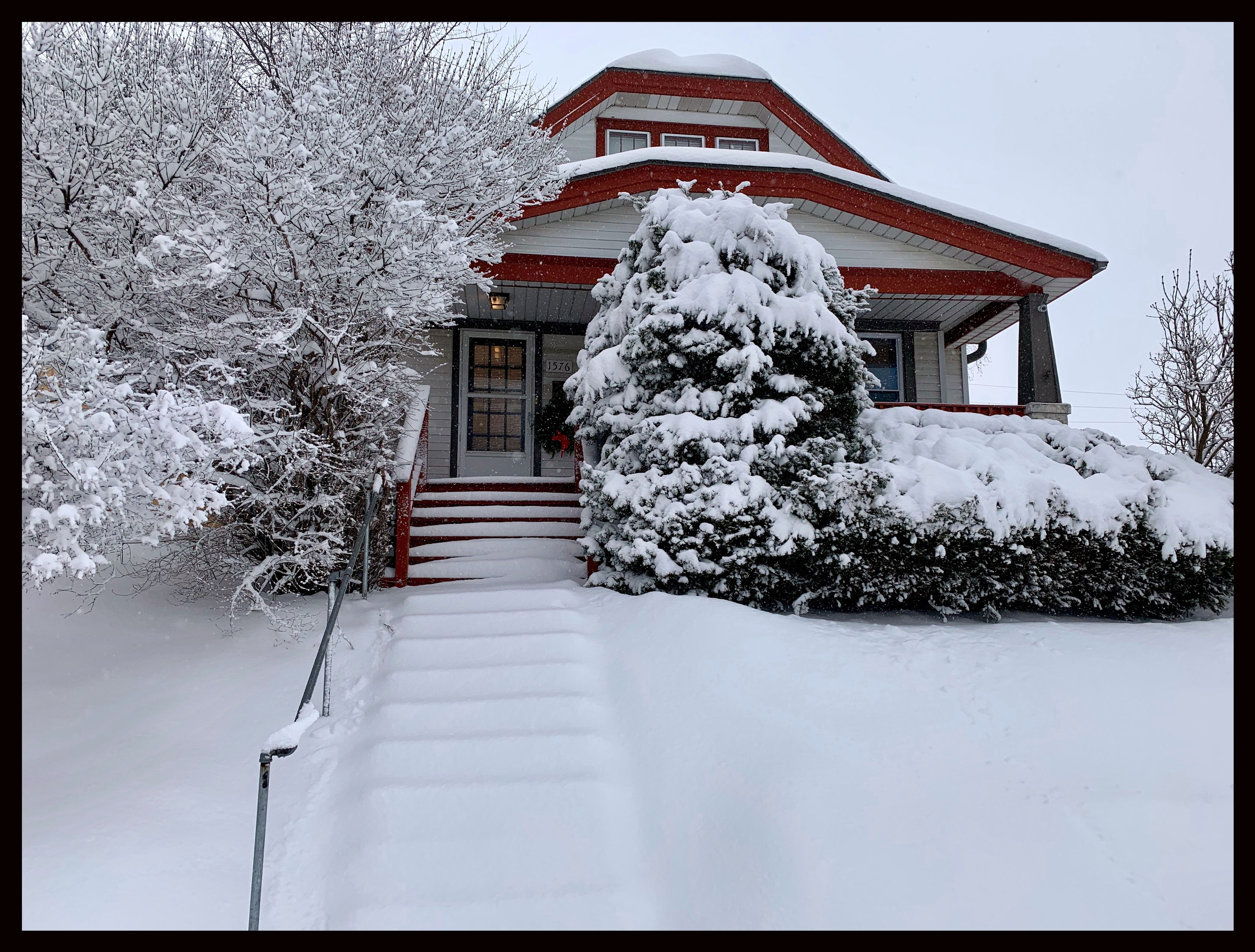 Bungalow